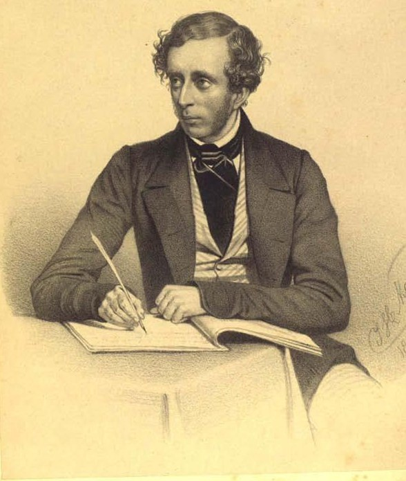 As file